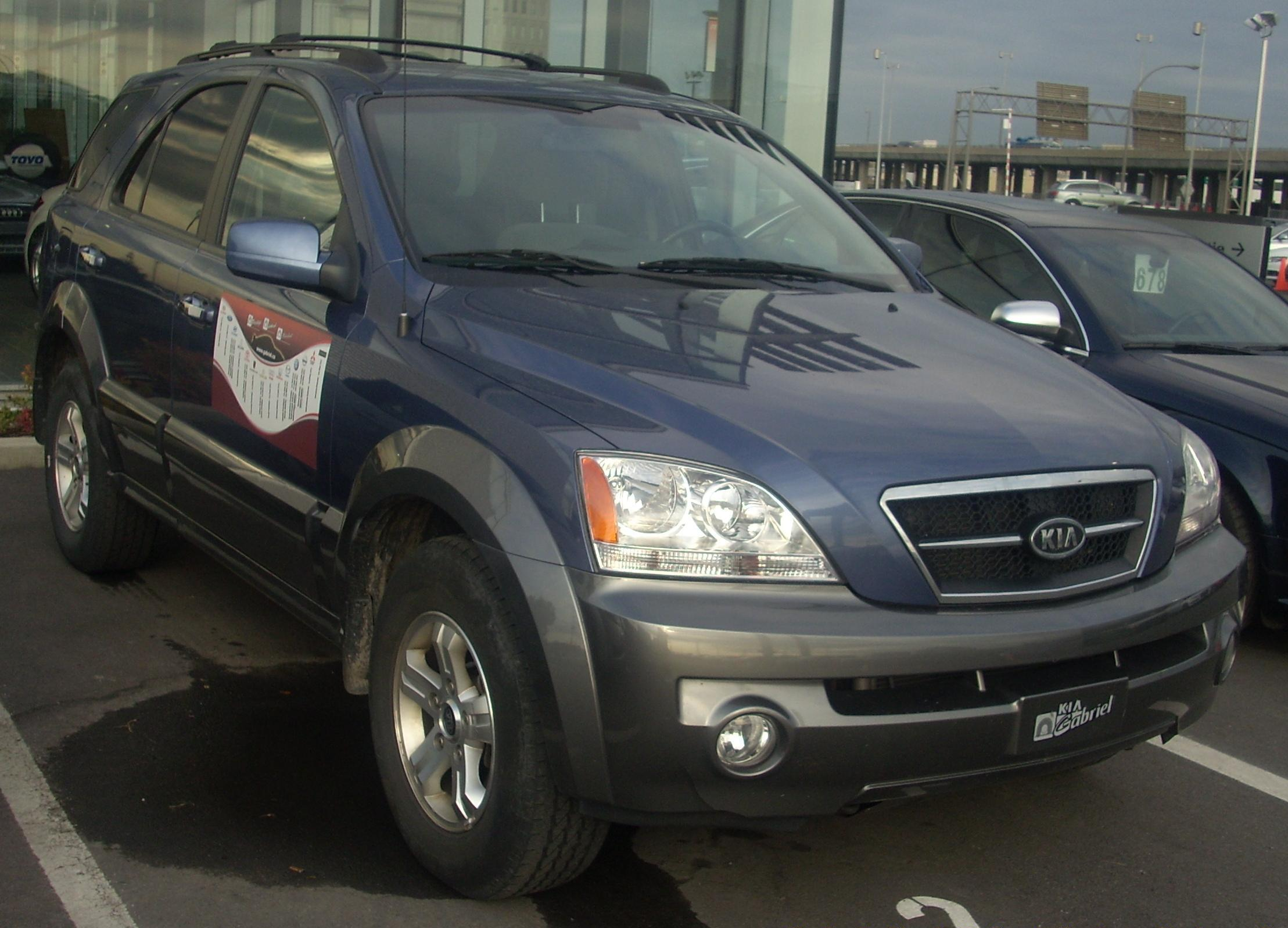 2003-2006 Kia Sorento photographed in Montreal, Quebec, Canada.